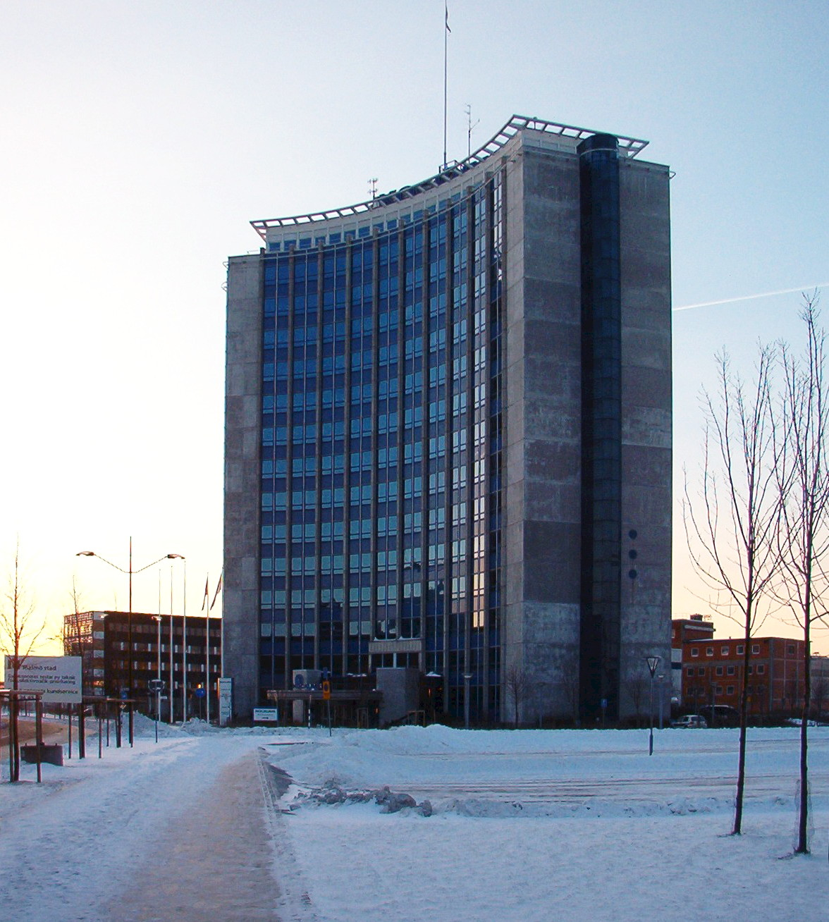 The horse shoe shaped building of Kockums AB in Malmö, Sweden. It it Kockums main building. At the time of its construction it was amazed for its bold shape. Date: Jan. 2006